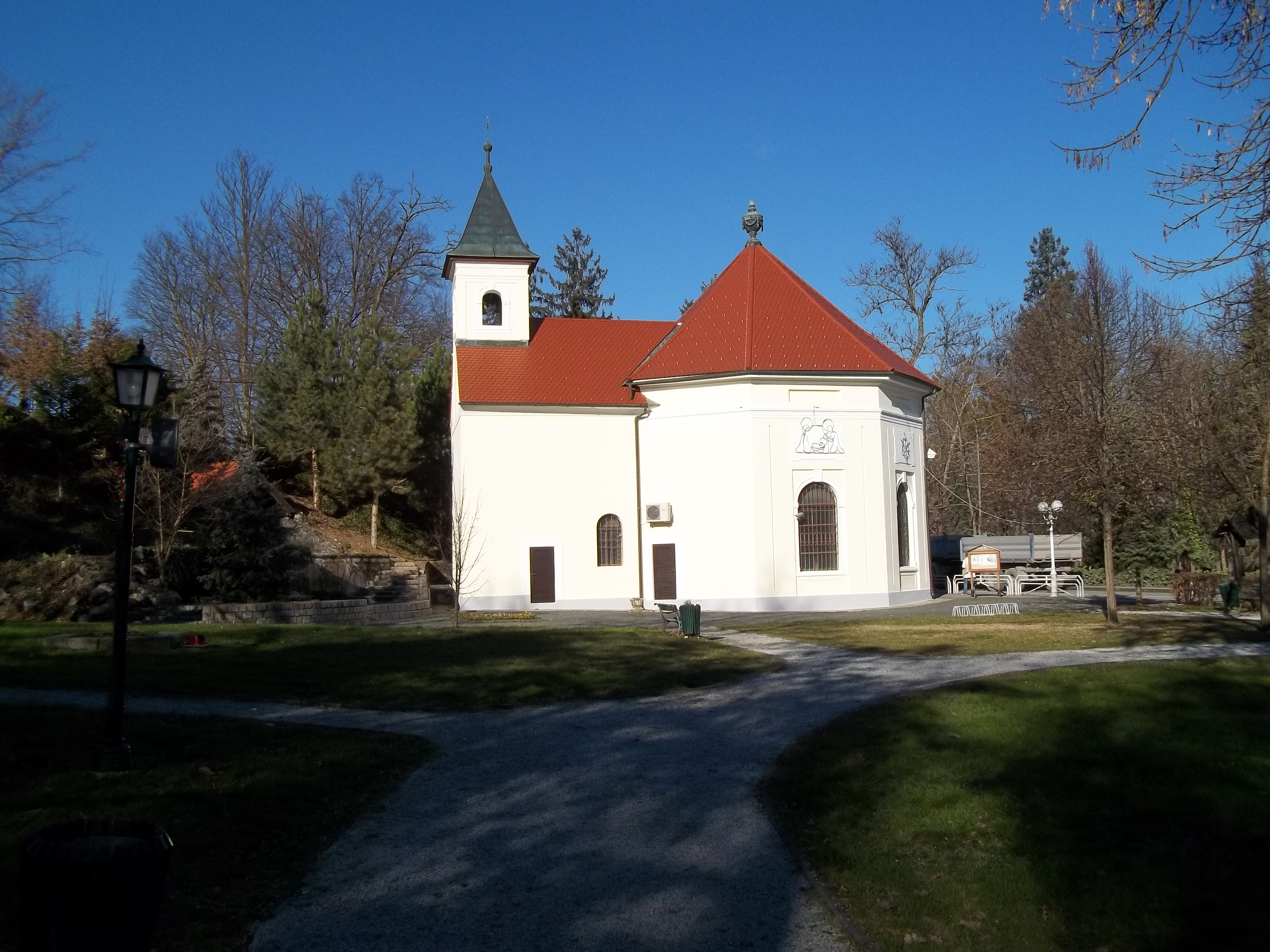 This is the photo of St. Catherine chapel in Stubicke Toplice.